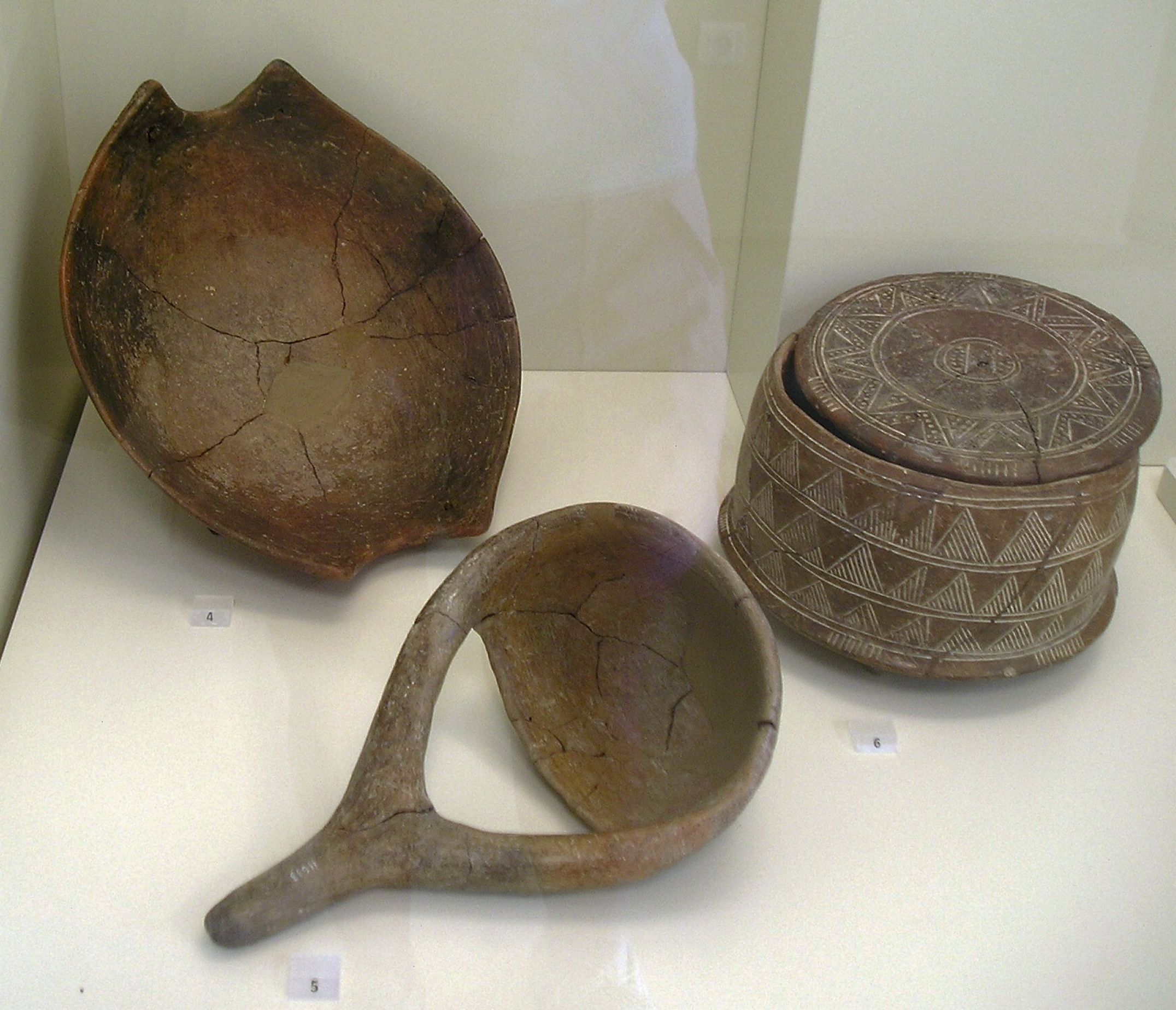 (4) Bowl with fork handles, pottery. Knossos, Early Neolithic, 6500-5800 BC. (5) Ladle, pottery. Knossos, Late Neolithic, 5300-4500 BC. (6) Three-legged vessel with lid and engraved decoration. pottery. Knossos, end of Neolithic or begin of the Prepalatial period, 3200-2600 BC. Archaeological Museum of Heraklion